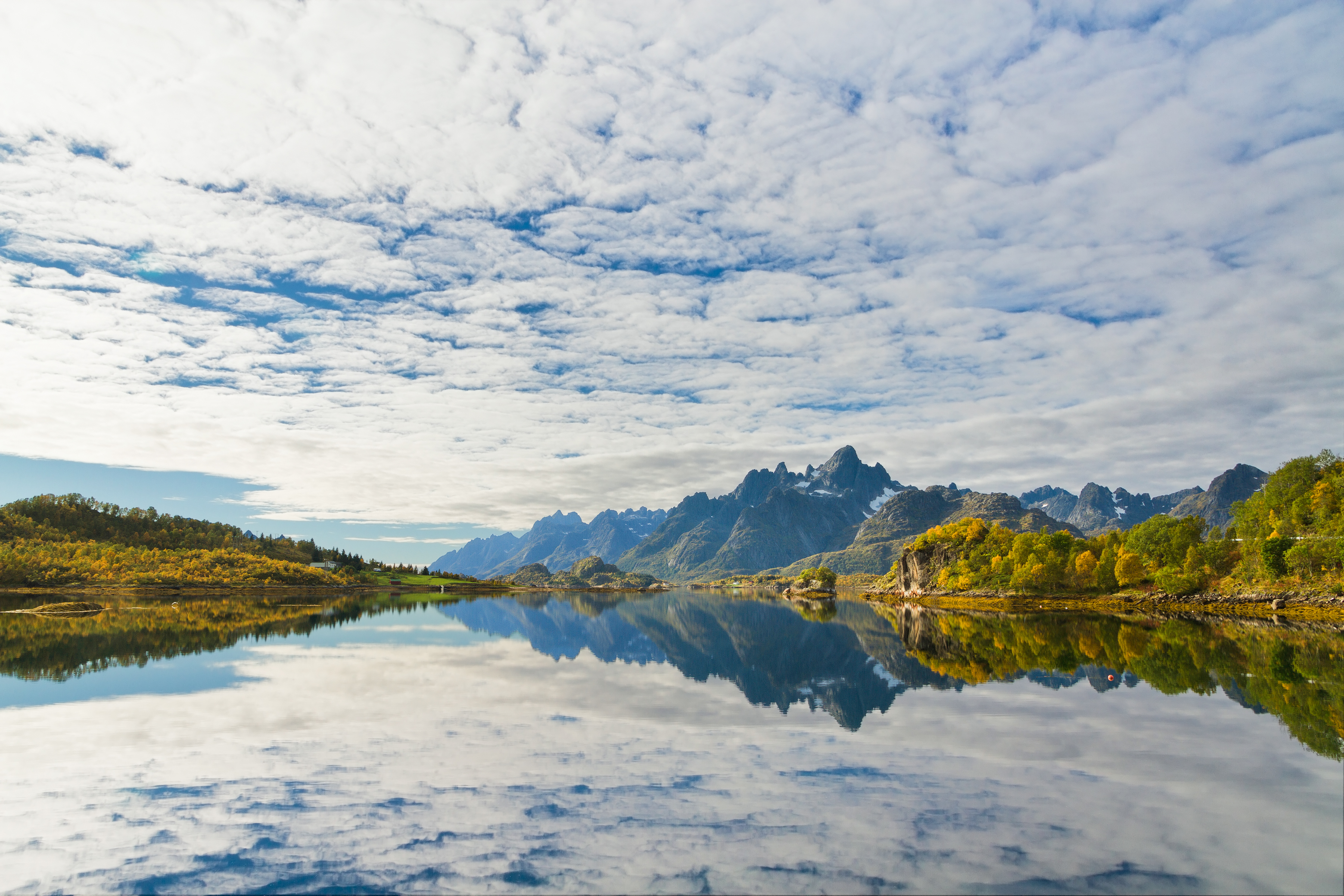 An autumn view to Raftsundet and mountains of Austvågøya (including Trolltindan) over Tennfjorden, Hinnøya, Norway in 2015 September.